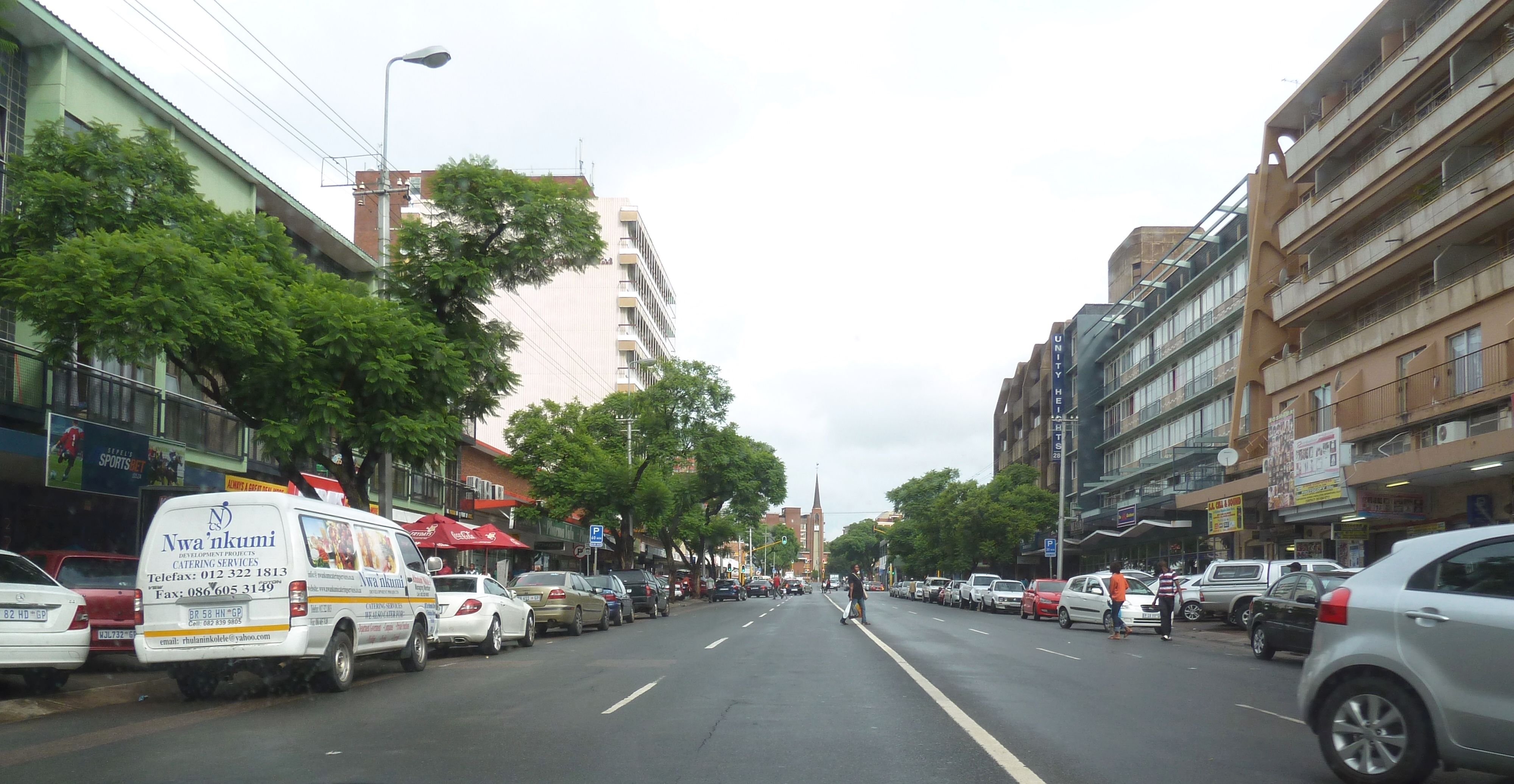 Eastward view in Esselen street, Sunnyside, towards the Bronberg church in Bourke street.